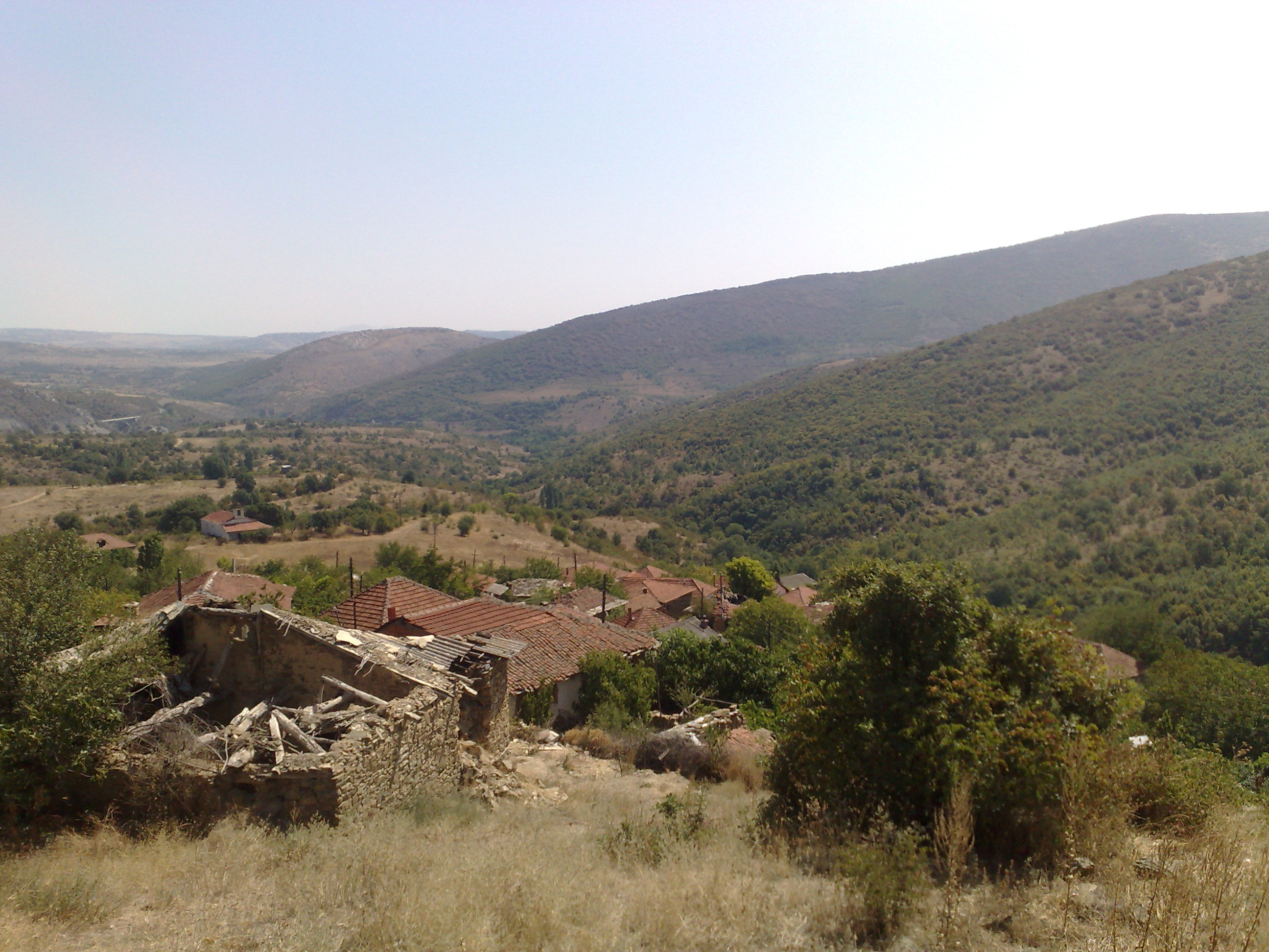 village of S'lp near Veles, Macedonia